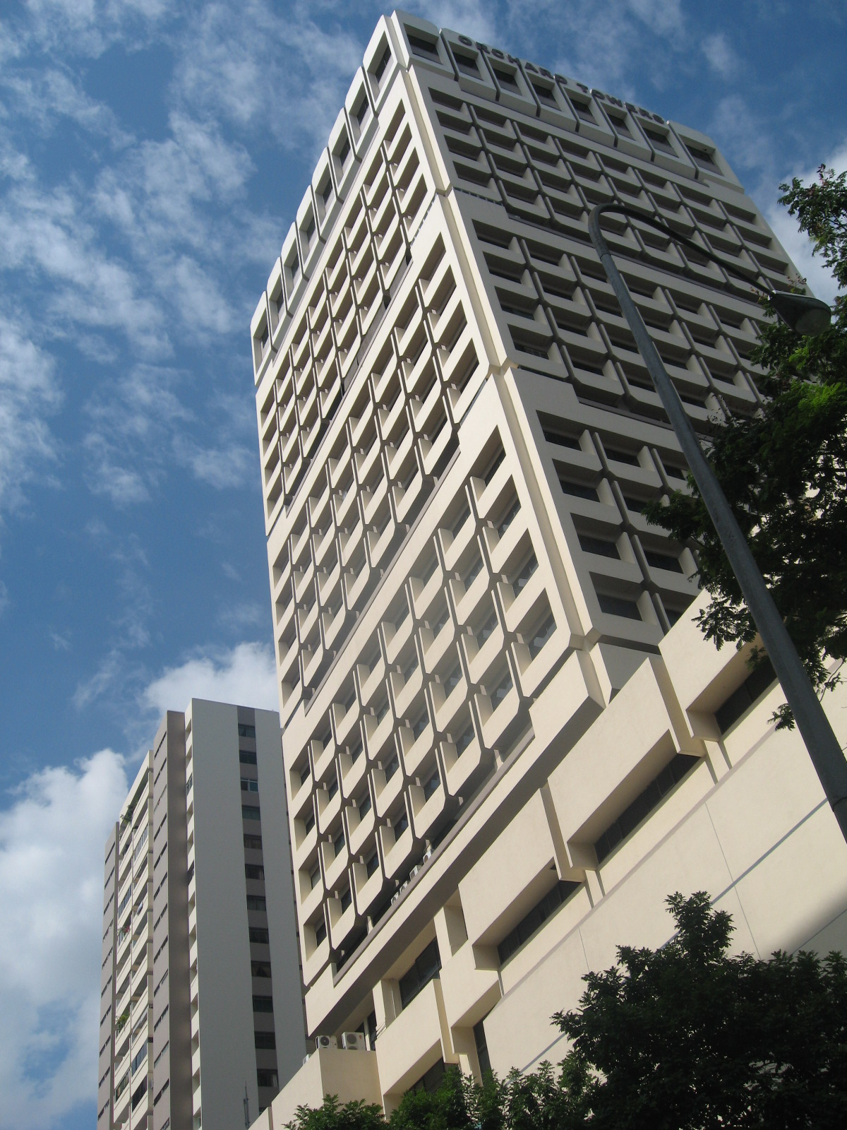 Orchard Towers, Singapore. Taken by Terence Ong in July 2006.